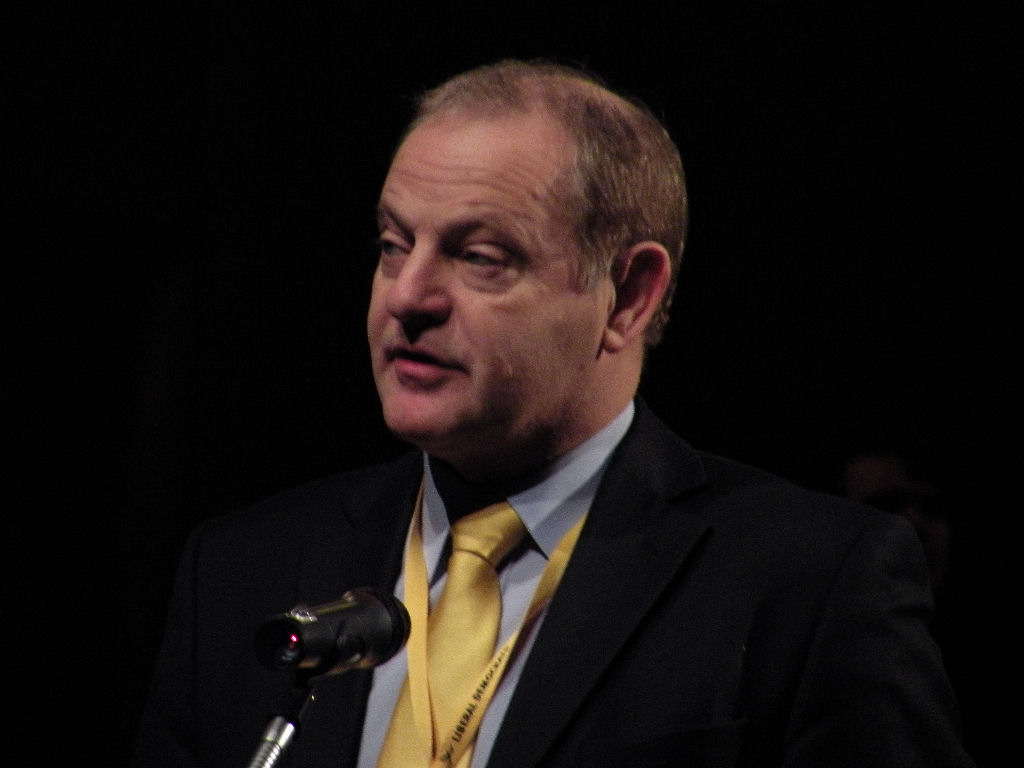 Ian Swales MP addressing a Liberal Democrat conference in Sheffield City Hall